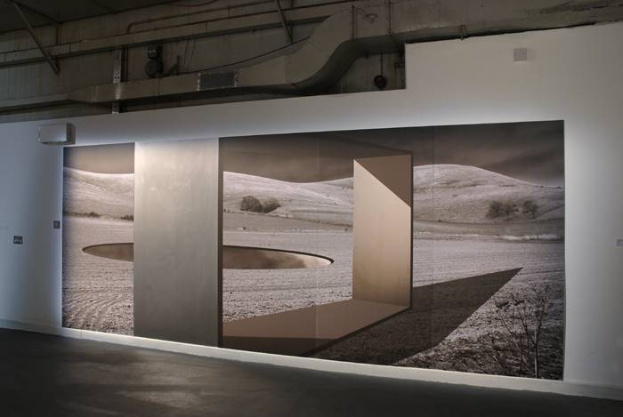 Photo Installation